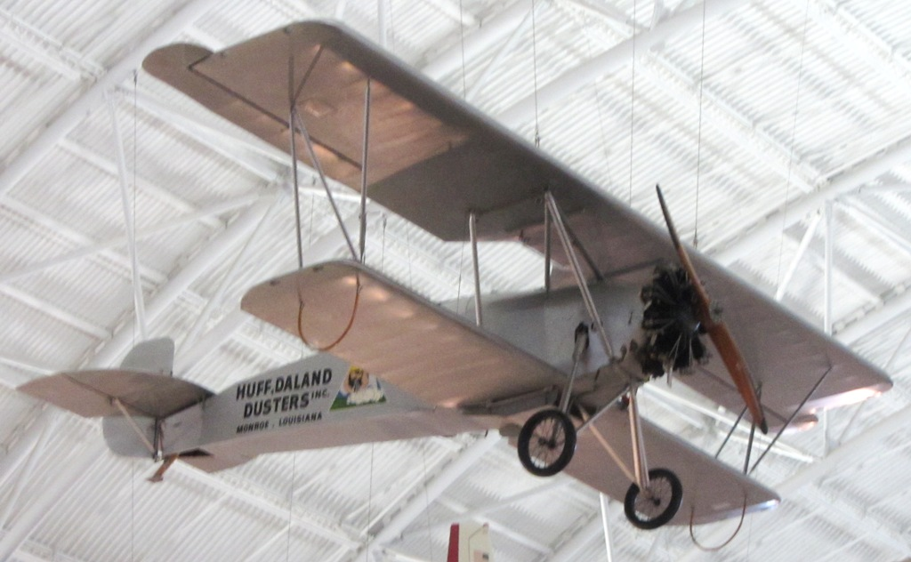 Huff-Daland Duster